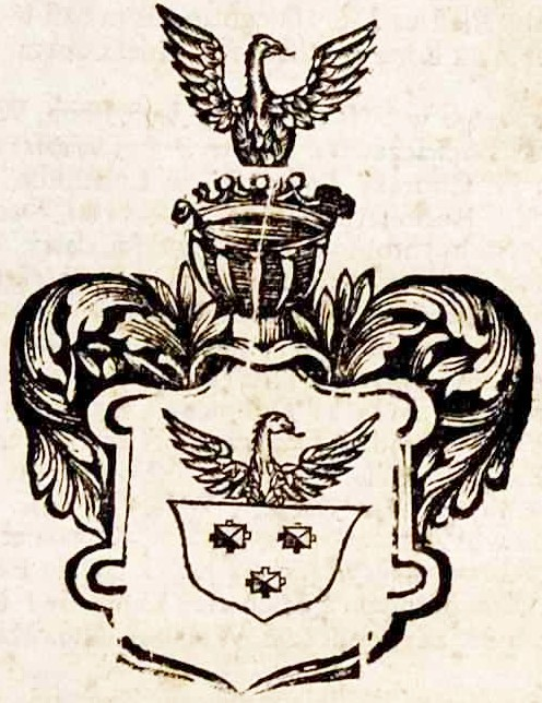 Sulima coat of arms by Kasper Niesiecki